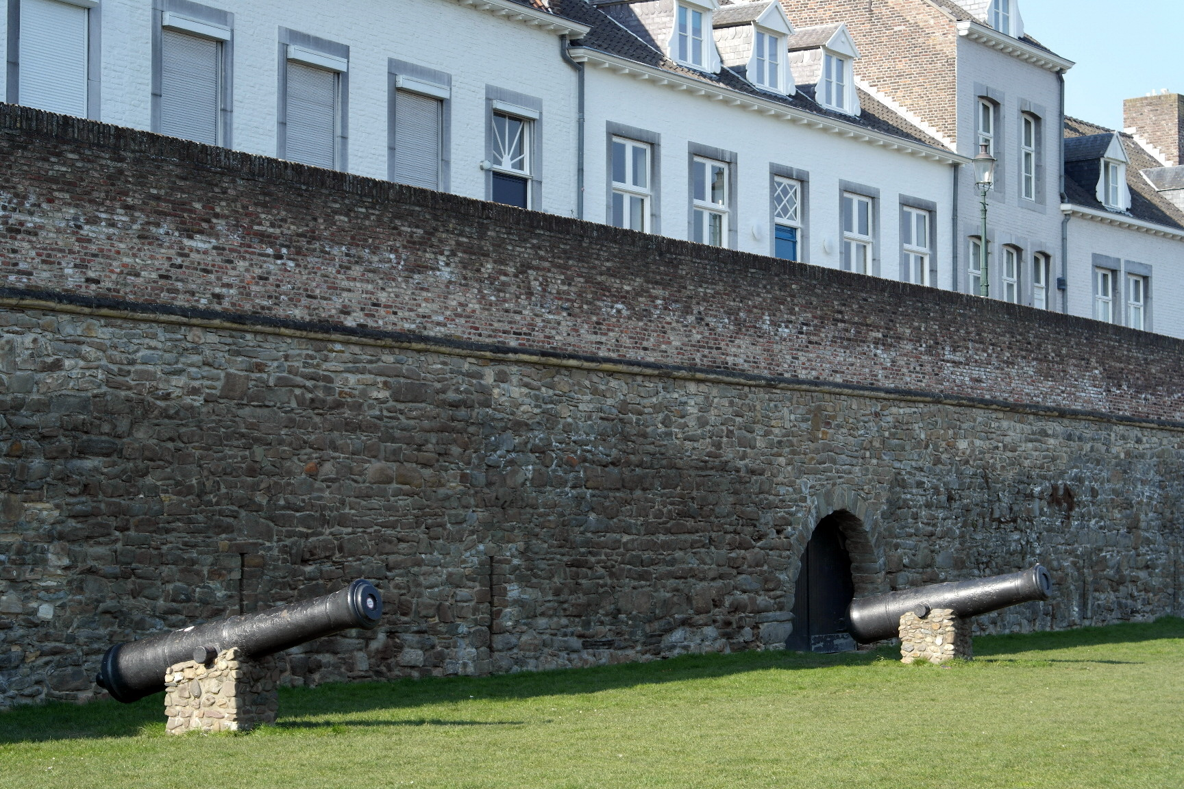 View of Onze Lieve Vrouwewal, part of the Medieval city wall of Maastricht, the Netherlands.